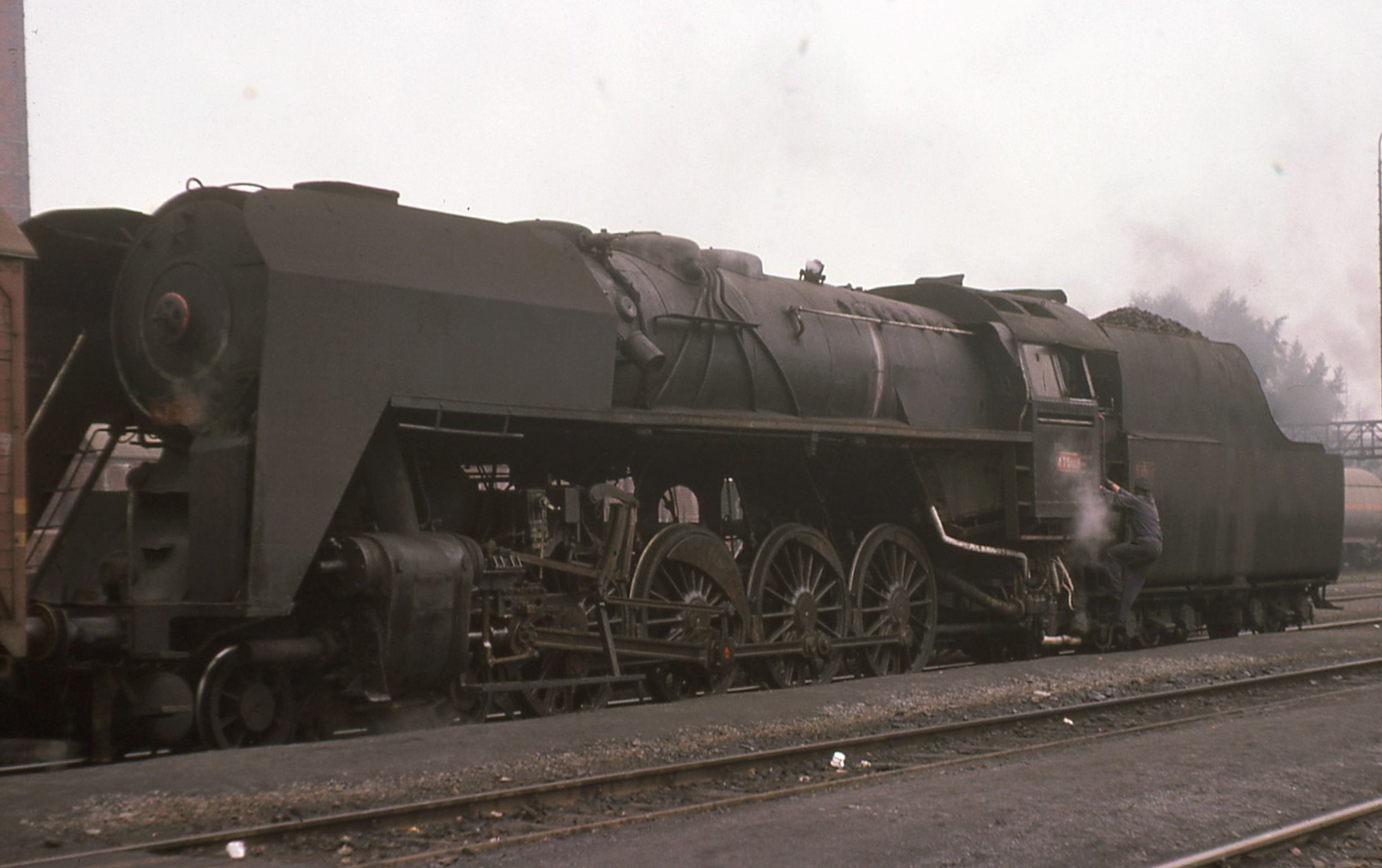 Czech Railways 'Mountain' type locomotive No. 475.132 on a freight at Česká Lípa station in July 1975